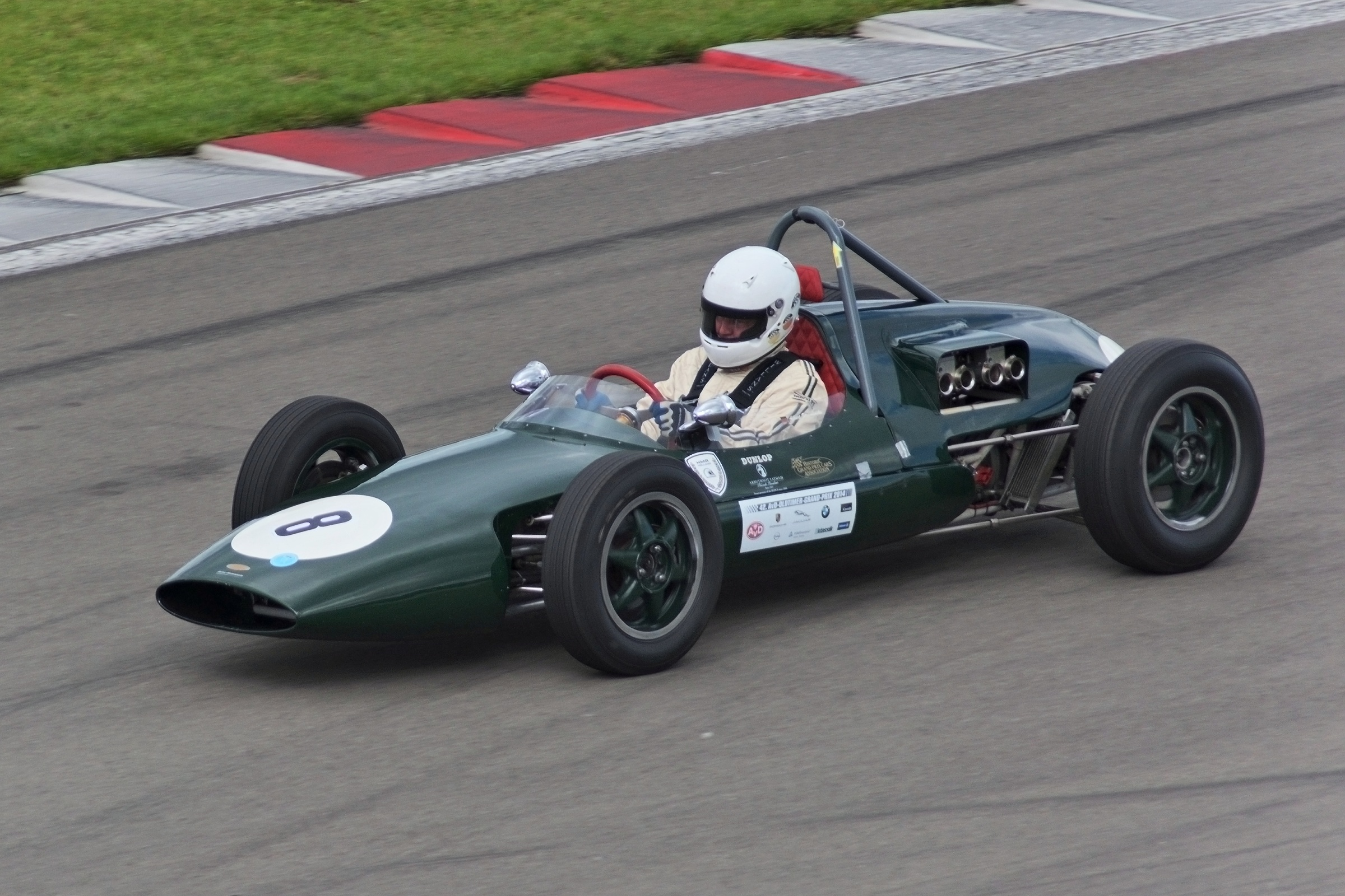 Emeryson F2/F1 72/71 Prototype